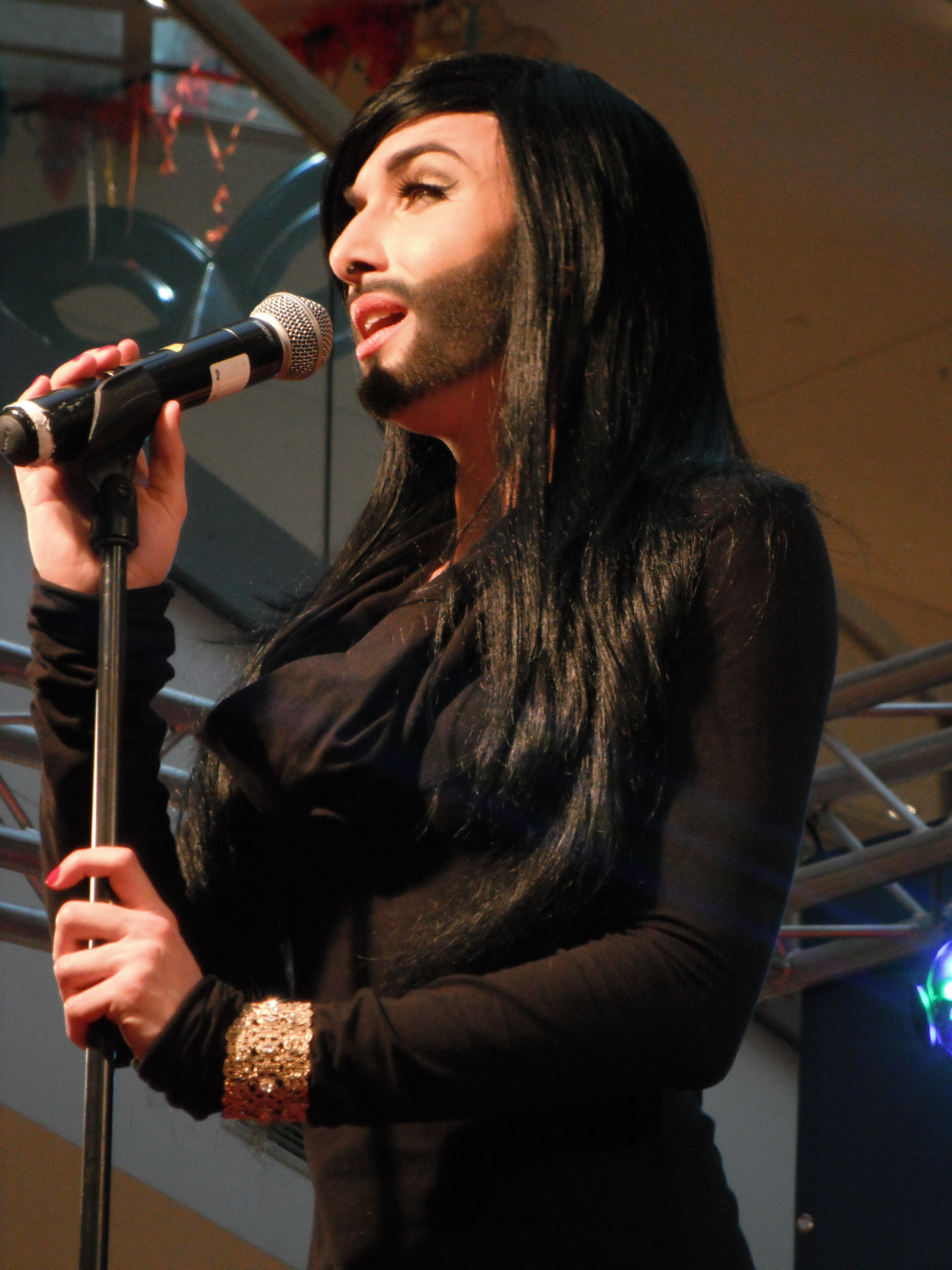 Austrian Singer Conchita Wurst